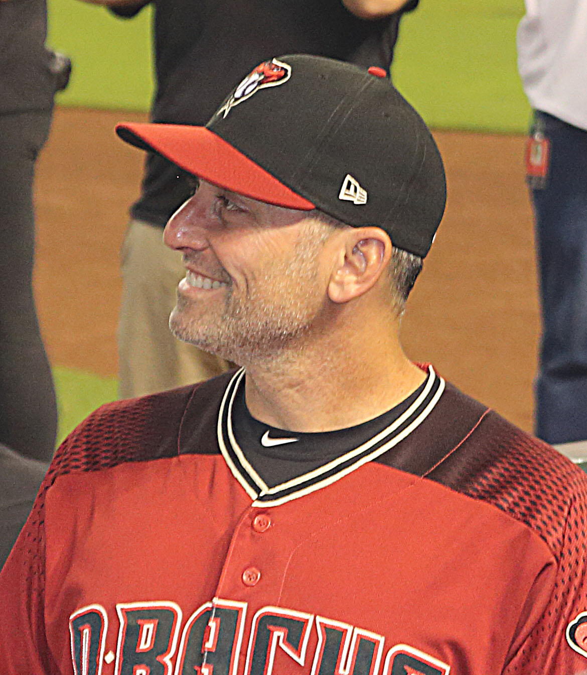 Torey Lovullo